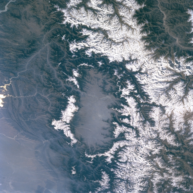 Kashmir Valley bordered by Karakorm Range in the north, Zanskar Range in the east and Pir Panjal Range in the west and south.